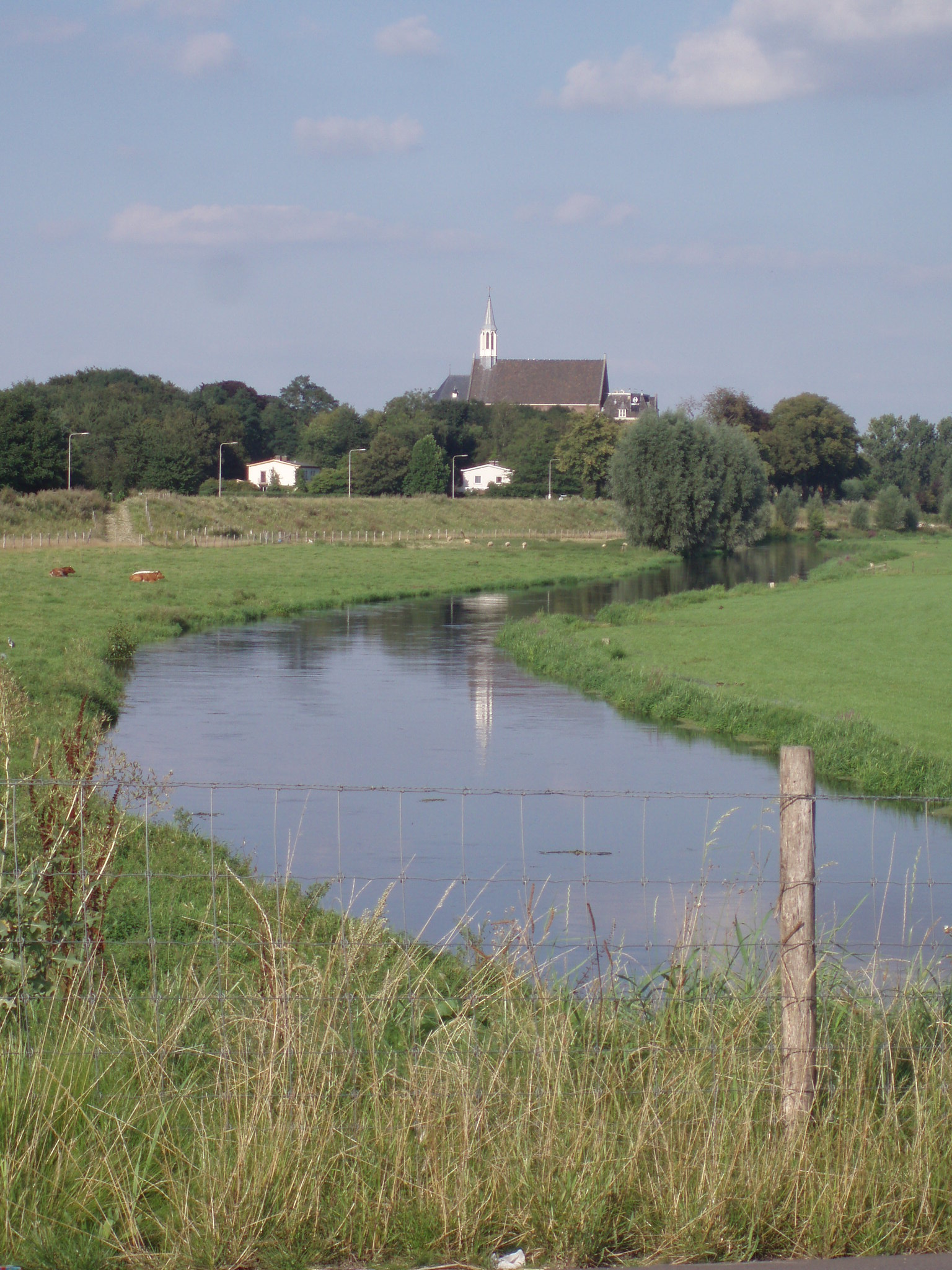 river Niers with Roepaen estate, Ottersum, Netherlands (